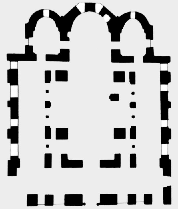 Plan of the church of Holy Wisdom, Thessaloniki